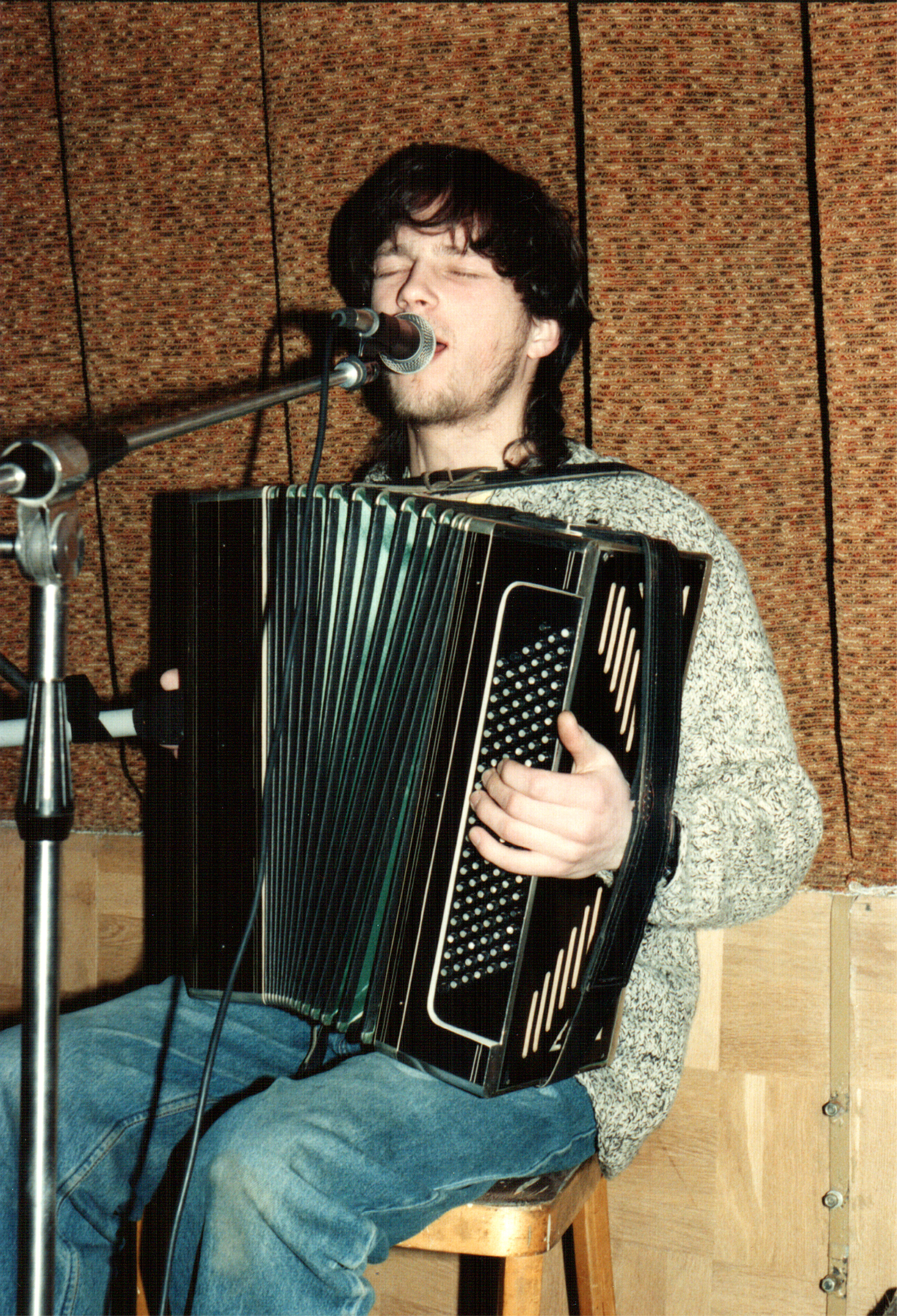 Feodor Chistyakov — the singer-songwriter and bayanist (accordeon player) of the Russian rock band Nol photographed during a rehearsal in Saint Petersburg, Russia, in 1991.